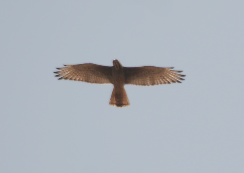 White-eyed Buzzard Butastur teesa in Kinnerasani Wildlife Sanctuary, Andhra Pradesh, India.